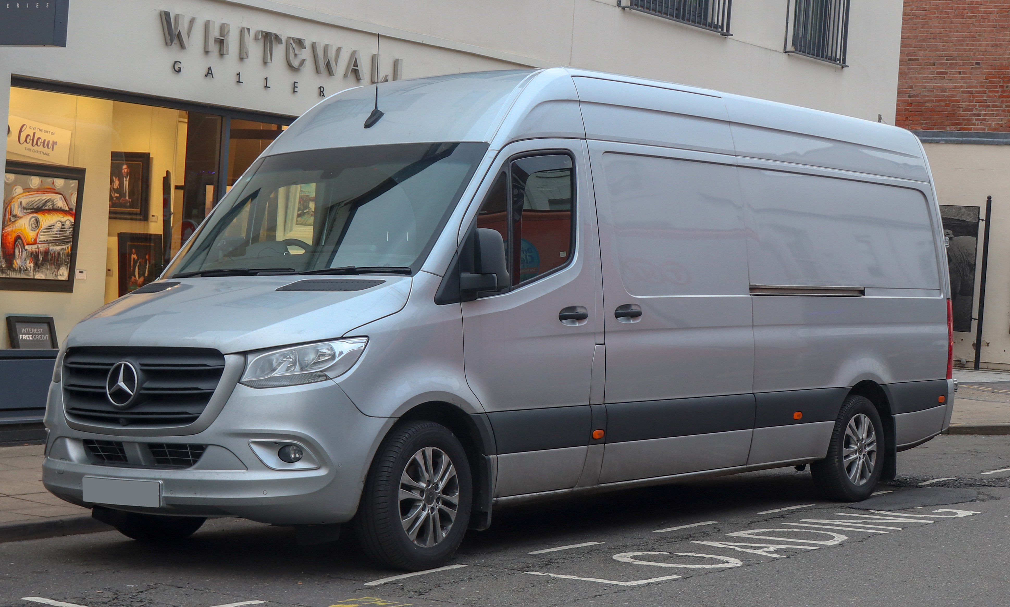 2018 Mercedes-Benz Sprinter 314 CDi 2.1 Front Taken in Leamington Spa